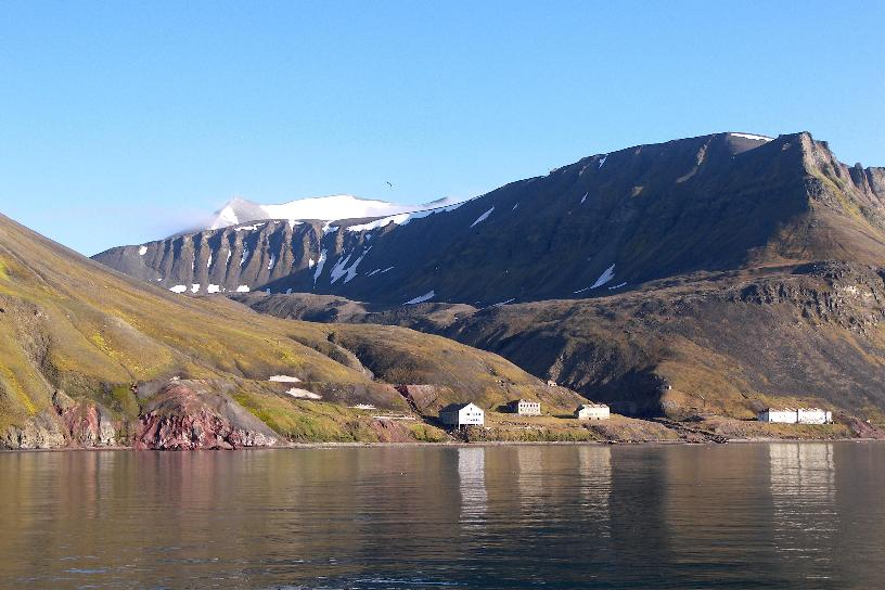 Abandoned russian mining town of Grumant